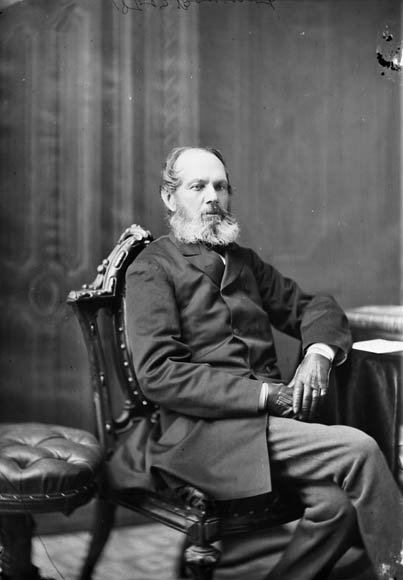 Portrait of John George Bourinot the elder, seated, facing right.